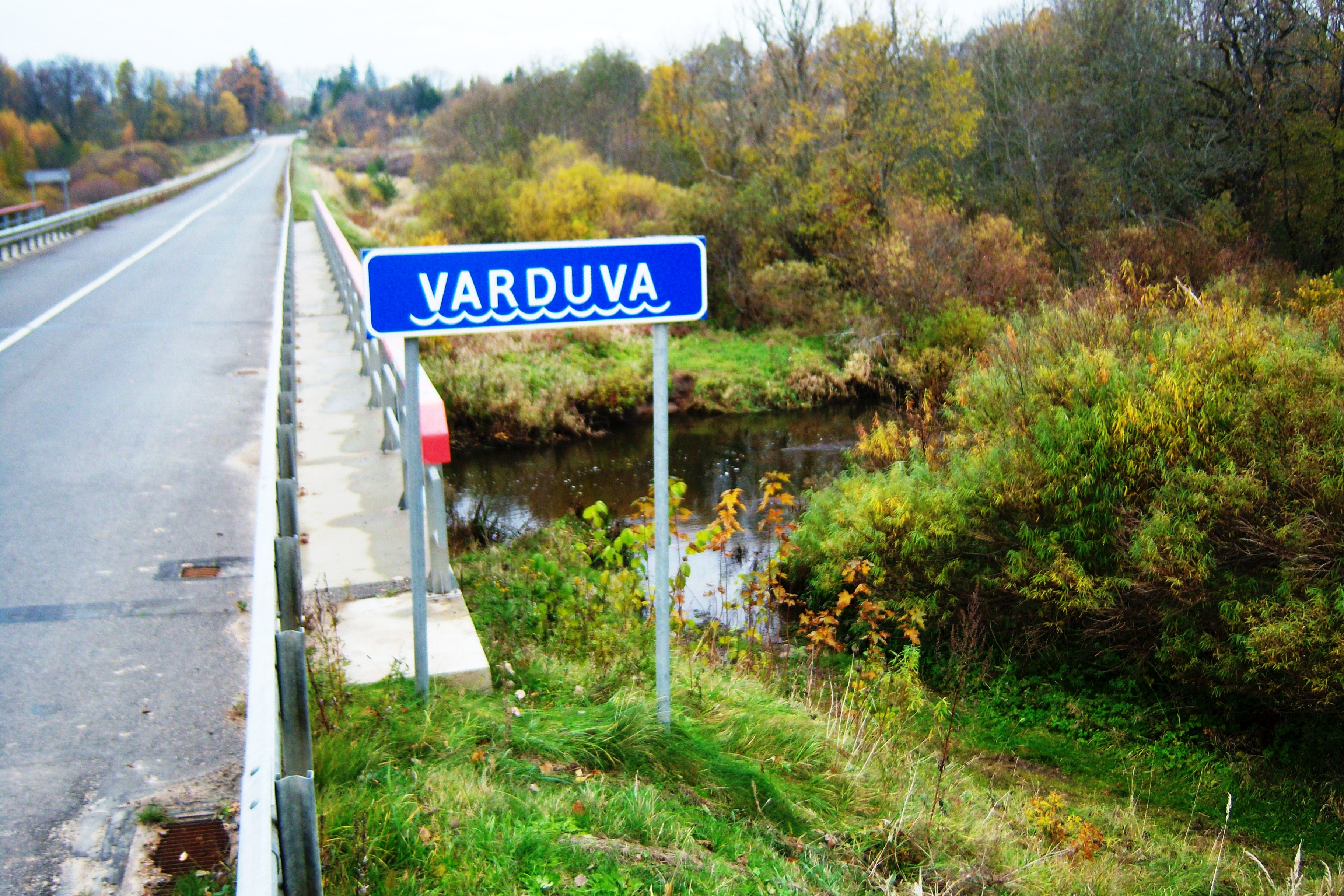 Road KK207, Renavas, Lithuania